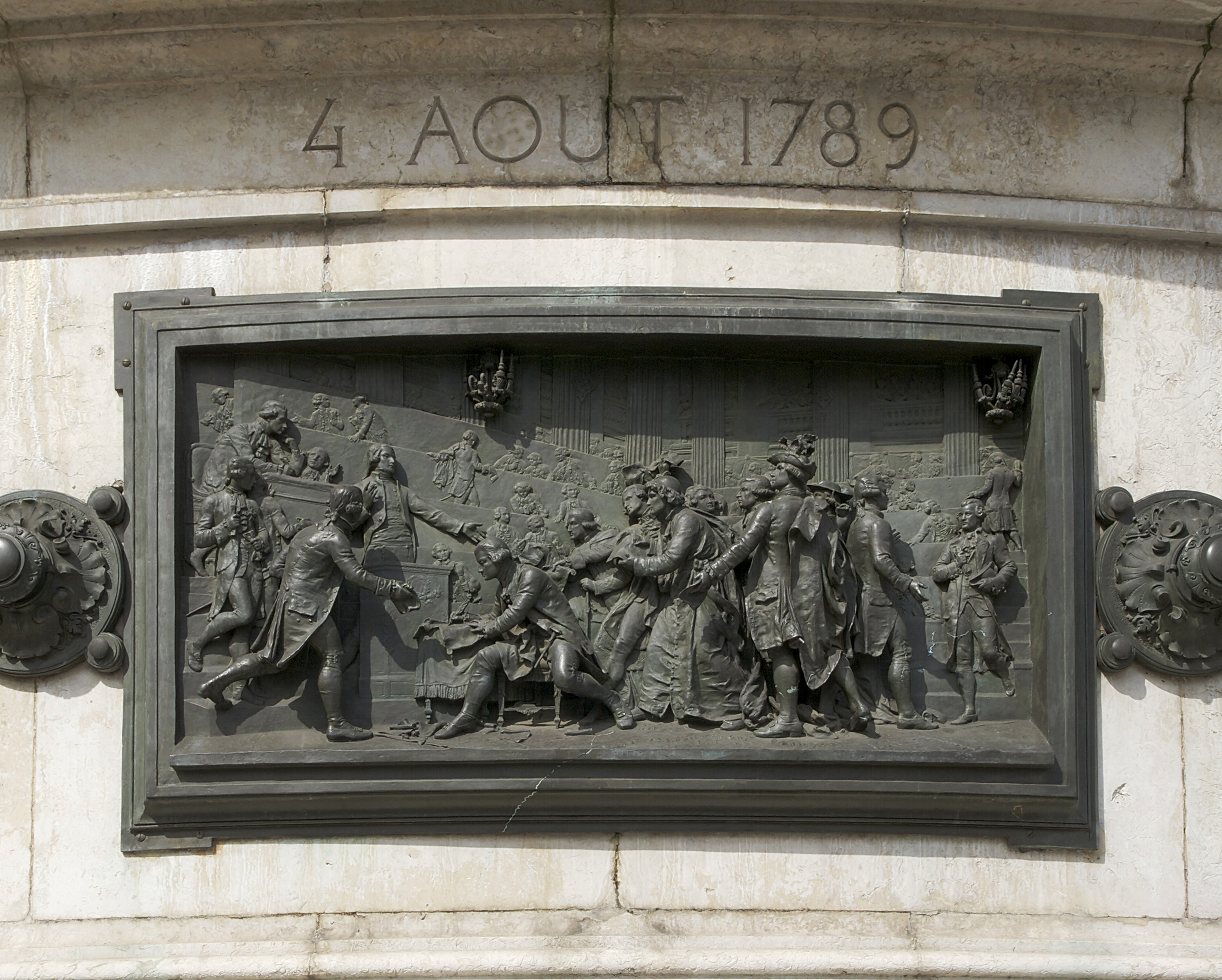 The The abolition of privileges, night of the 4th August 1789. Bronze relief at the "Monument to the Republic, Place de la République, Paris